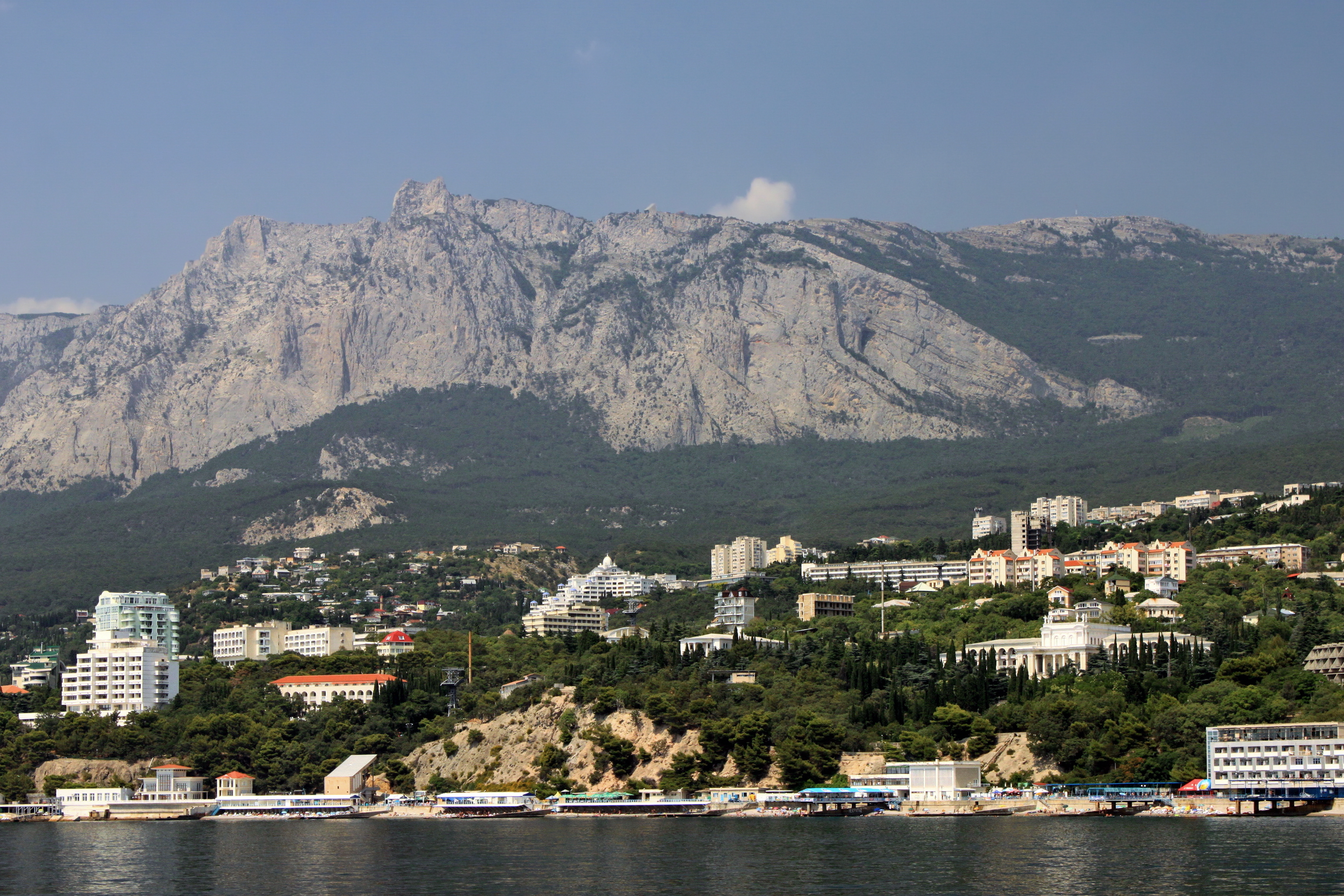 View of the city from the ship. Gaspra, Crimea.